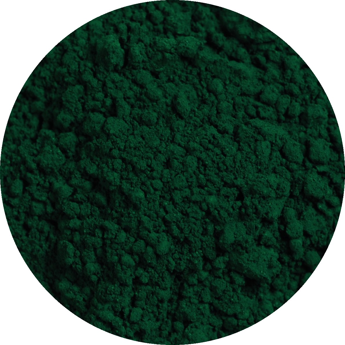 Pigment Phtalo Green PG36